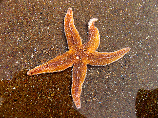 Asterias rubens, Common Starfish: Caswell Bay A macro shot of a starfish in a rockpool at Caswell Beach.